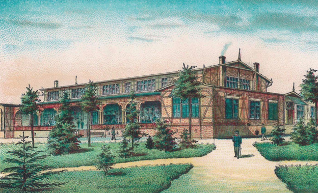 Drawing of the officers' mess in Dallgow-Döberitz, shortly after it was opened around 1900.